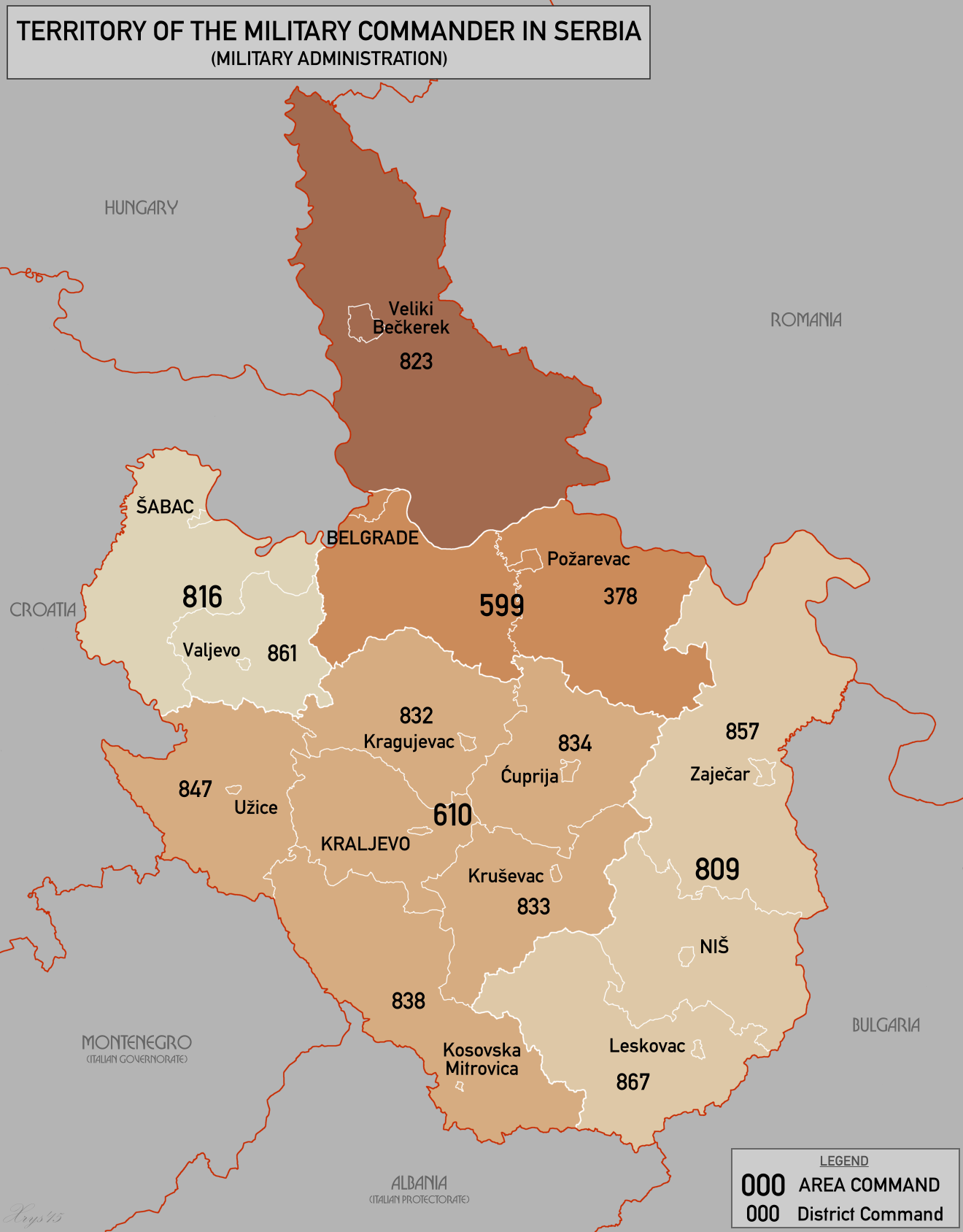 Map of the German military administration in Serbia 1941-45 showing Area and District commands. Source map data; Wilfried Krallert, 200k Volkstumskarte Jugoslawien, Wien (1941).